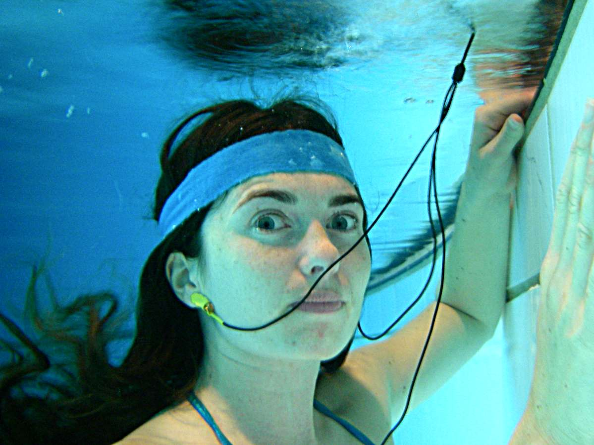 Here is a picture that I took of Ariel Garten doing an underwater concert performance on quintephone